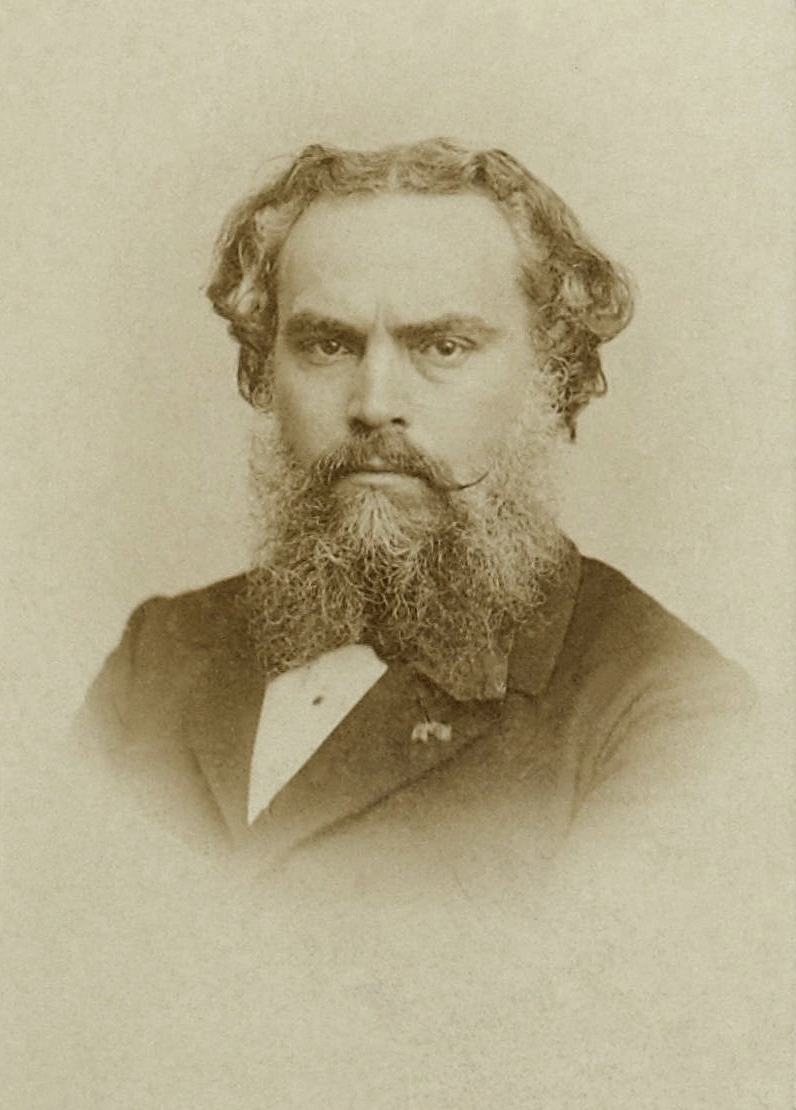 Alexandre Cabanel (1823-1889), painter, representative of the french Academic art.